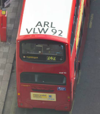 Aerial roof markings on London bus